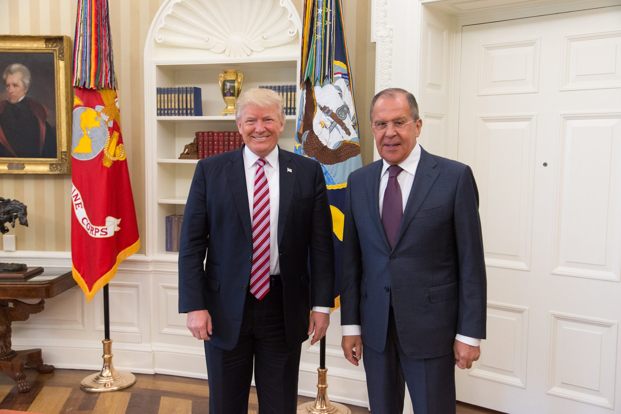 President Donald Trump speaks with Russian Foreign Minister Sergey Lavrov in the Oval Office, Wednesday, May 10, 2017, at the White House in Washington, D.C. (Official White House Photo by Shealah Craighead)